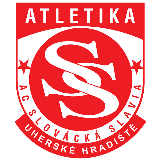 Logo of AC Slovácká Slávia Uherské Hradiště